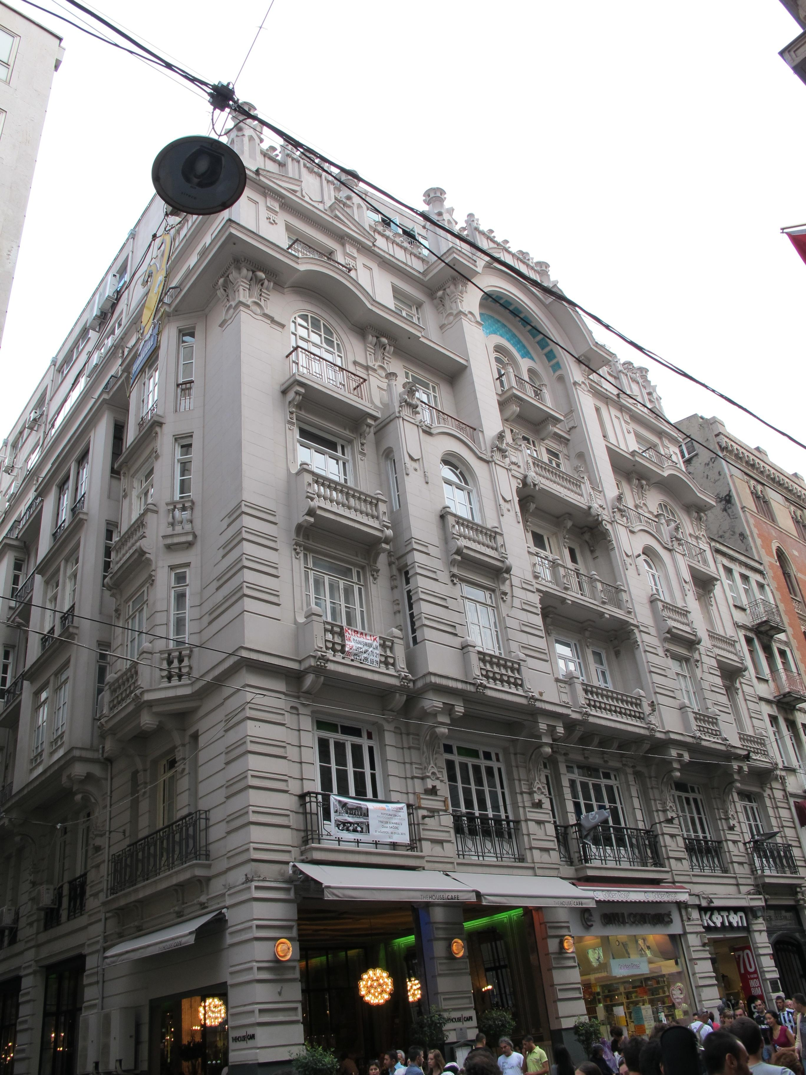 Mısır Apartmanı located in İstiklal Caddesi, İstanbul.